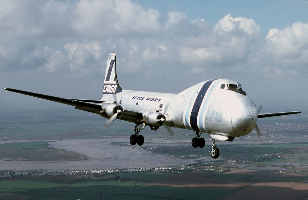 Air-to-air with a Falcon Airways Aviation Traders ATL-98 Carvair. Original description: Working at Southend Airport in the 'Seventies produced some great opportunities. Just before N80FA departed on its ferry flight to Texas, I was able to fix up an air-to-air session from Cessna 172 G-ATLN. We flew as fast as possible, the Carvair as slow as it could with everything down. I can still hear those P&Ws roaring over the sound of my open window and the general racket in the Cessna. I even sold my car to one of the Falcon directors who duly loaded and flew home to the States with it - truly Car-via-air as Freddie Laker originally intended. This aircraft crashed in Alaska in 1997 as N103; another of the few remaining Carvairs suffered a similar fate up there in May 2007, so now only two survive.